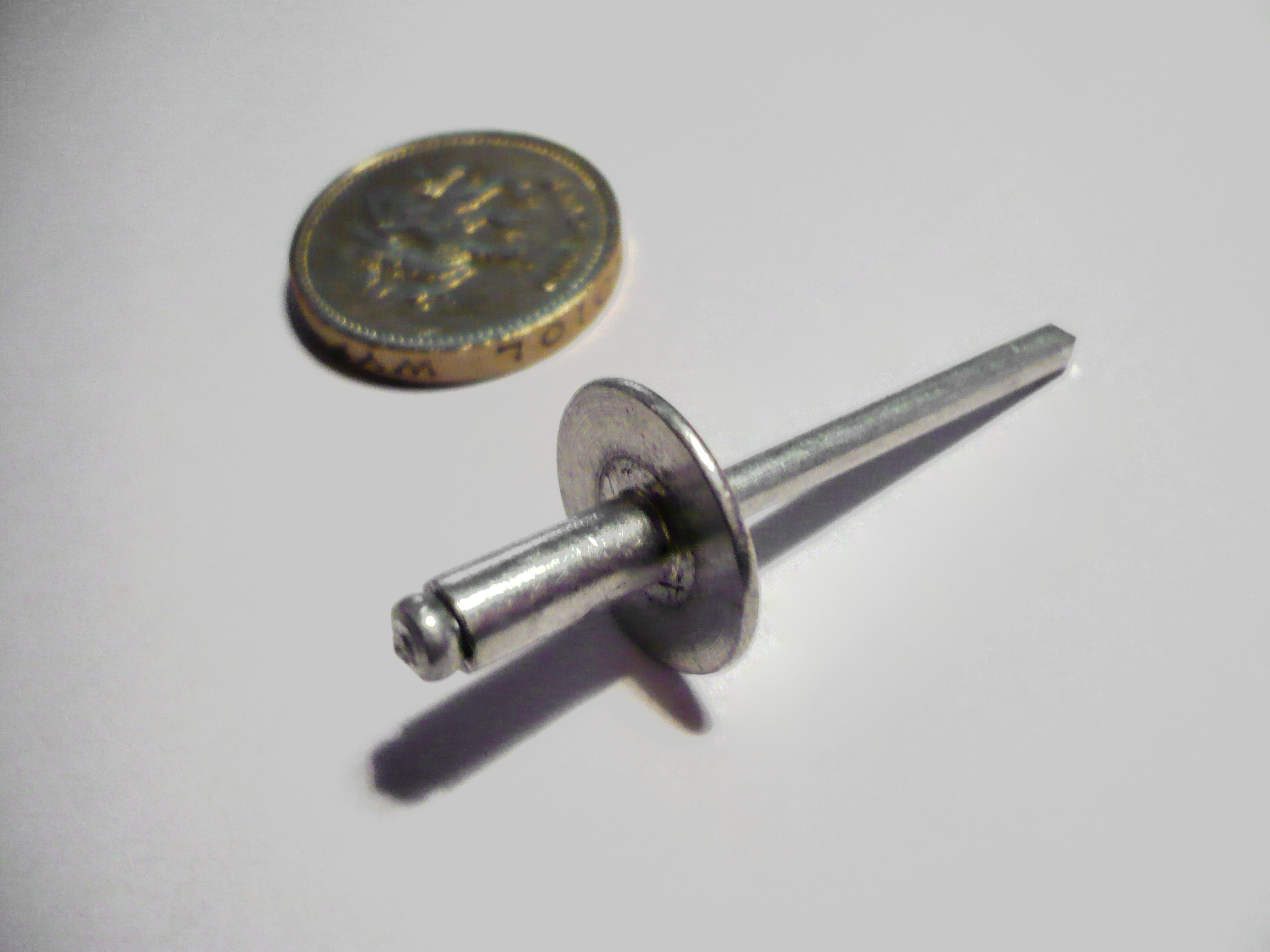 large pop rivet for gfrp